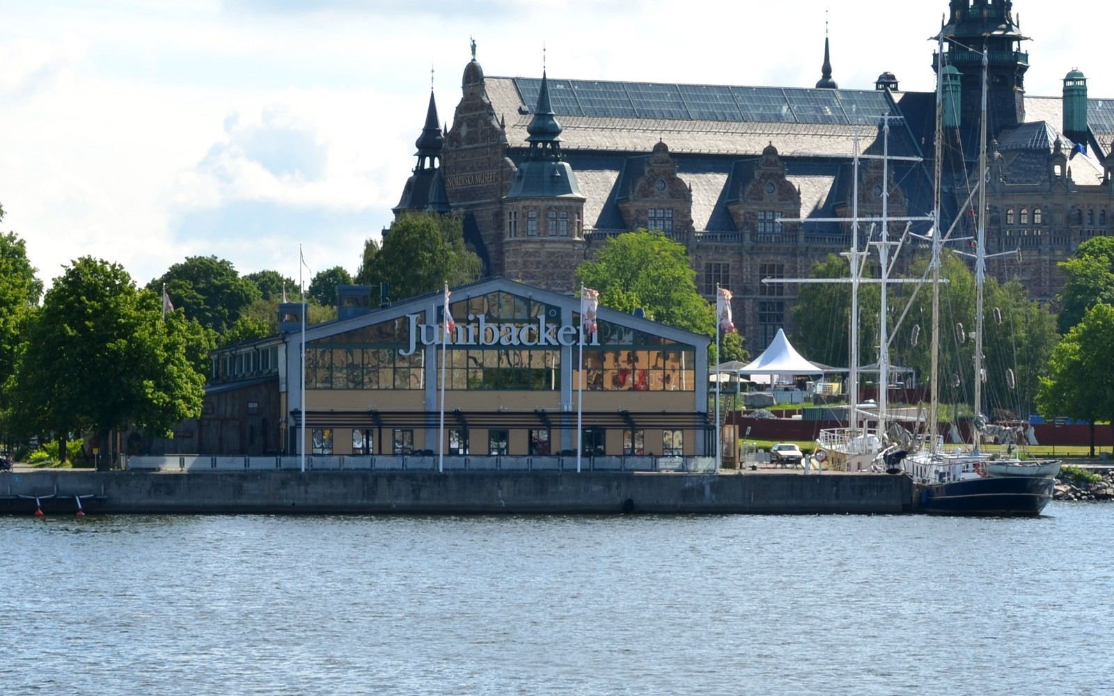 Junibacken on the island Djurgården in Stockholm.